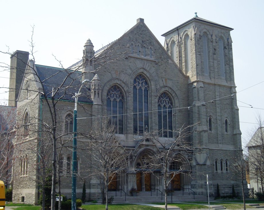 Taken by SimonP in April 2005